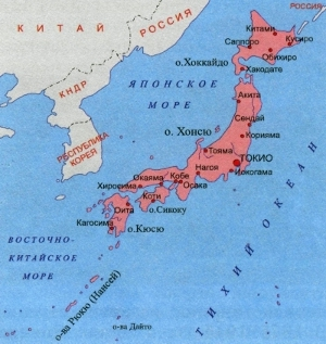 Map of Japan (Russian)